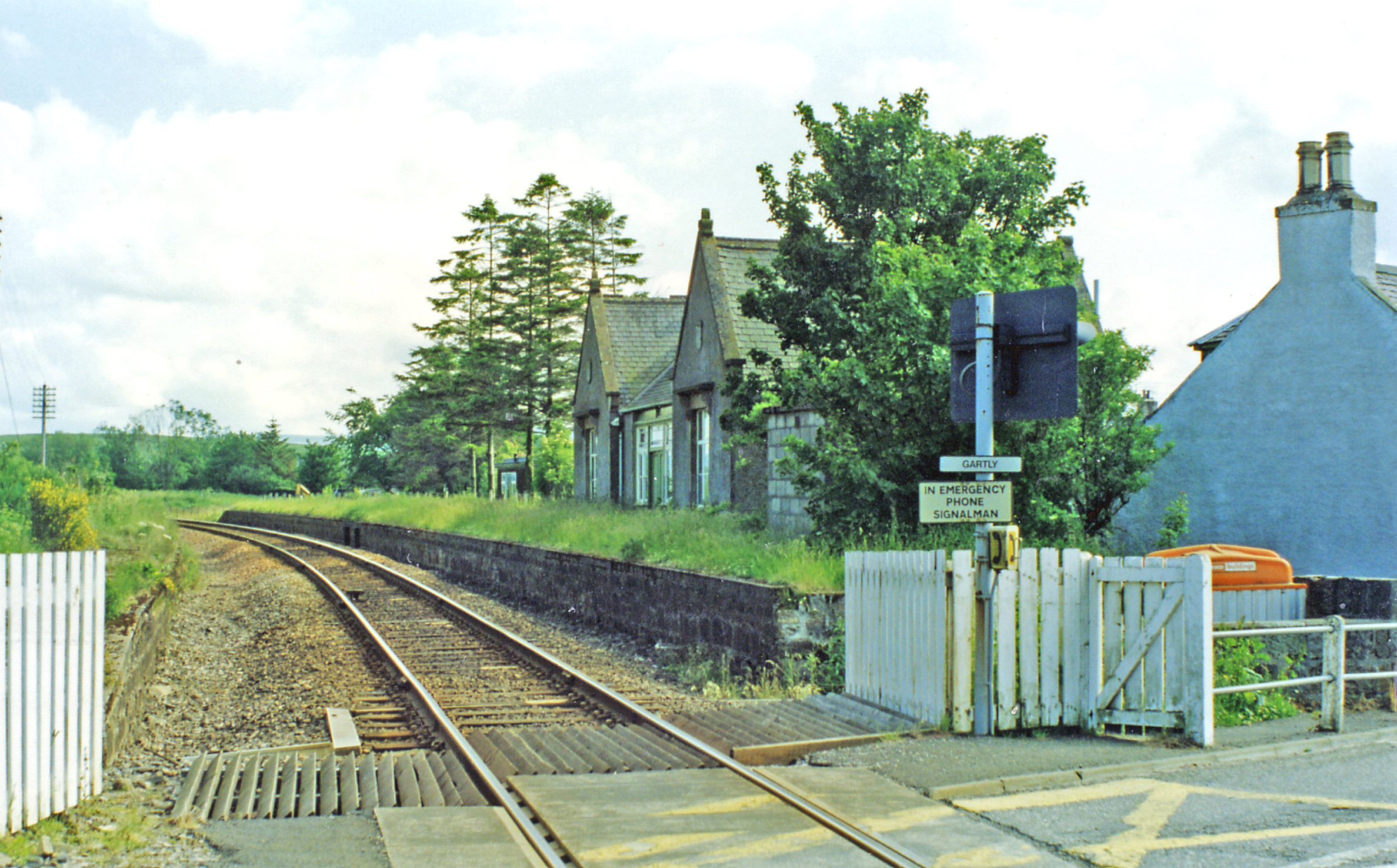 Gartly station, remains 1997. View southward, towards Aberdeen: ex-GN-of-SR Aberdeen - Huntly - Keith - Elgin - (Inverness) main line. The station was closed 6/5/68, when also Keith - Elgin via Craigellachie was closed and all Aberdeen - Inverness have been run west of Keith by the ex-Highland line.